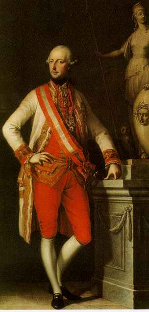 Portrait of Joseph II (1741-1790), Holy Roman Emperor